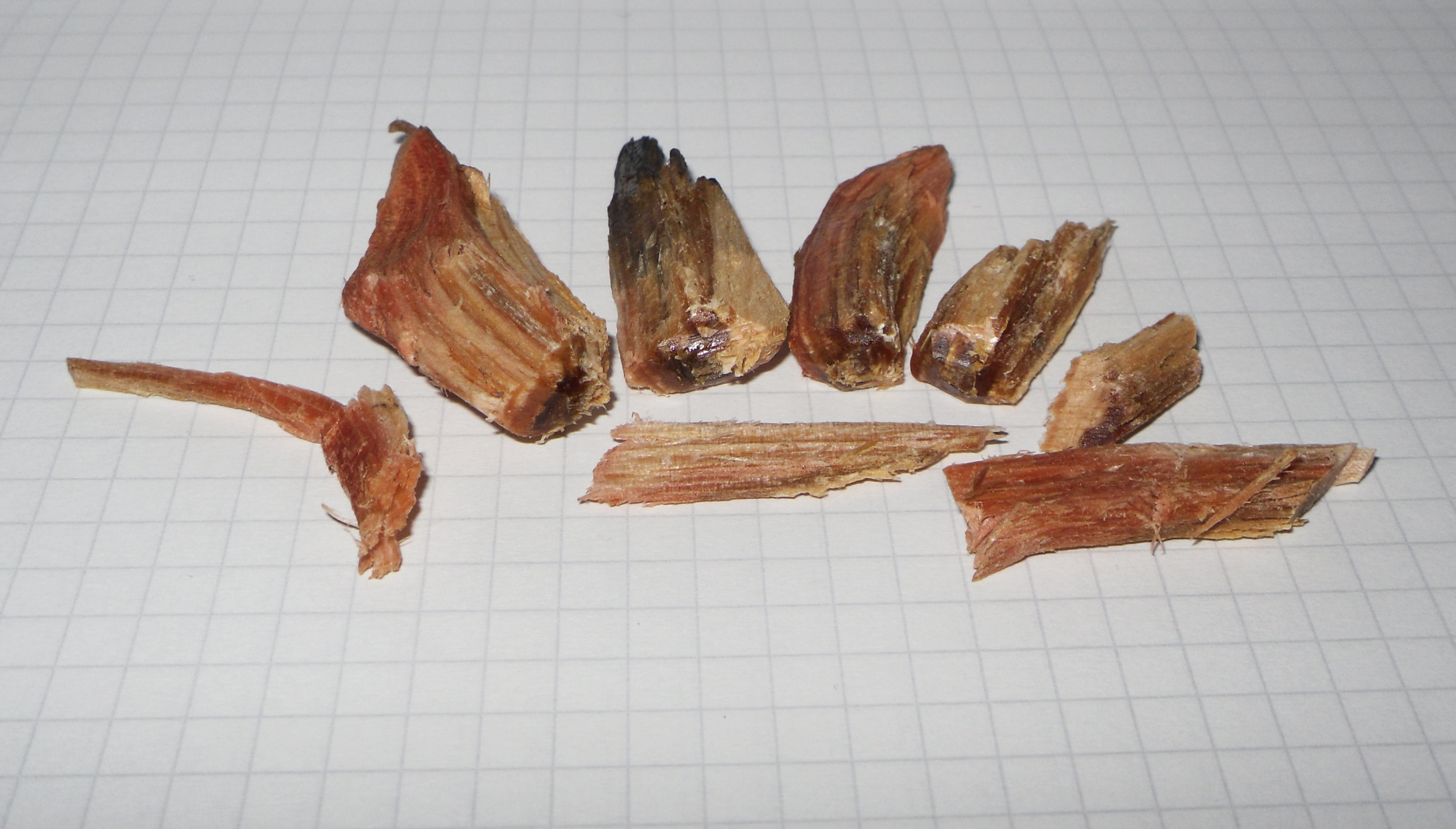 Chunks of fatwood, Size: 2-3cm. The resin can be seen very clear.